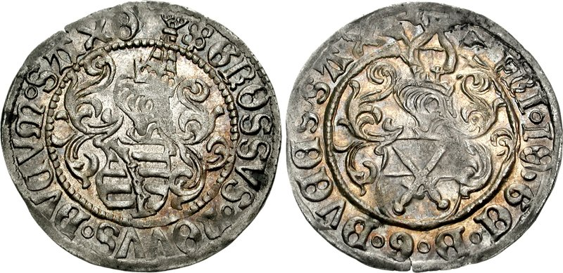 GERMANY, Sachsen-Kurfürstentum. Friedrich III, with Johann and Georg. Electors, 1507-1525. AR Zinsgroschen (2.56 g, 8h). Freiburg mint. FRI • IO • GЄ • D • G • DVCЄS • SΛX (annulet stops), helmeted coat-of-arms; floral scroll to left and right / GROSSVS • nOVVS • DVCVm • SΛXO (annulet stops), helmeted coat-of-arms; floral scroll to left and right. K&K 45; Schulten 3008. Good VF, lighlty toned.